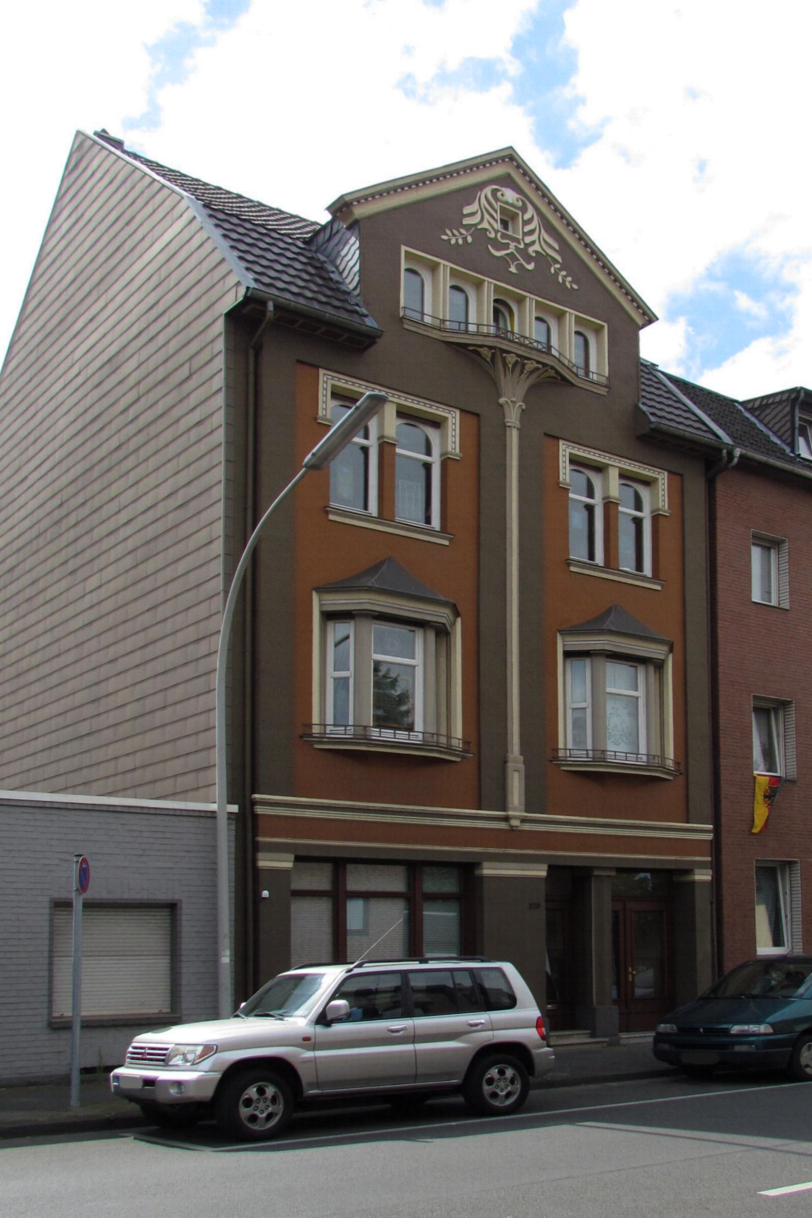 This is a photograph of an architectural monument. 027